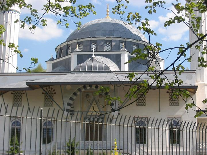 The Sehitlik-Moschee is a mosque on the Islamischen Friedhof (cemetery of islam) in Berlin-Neukölln. The laying of the foundation stone was in 1999.